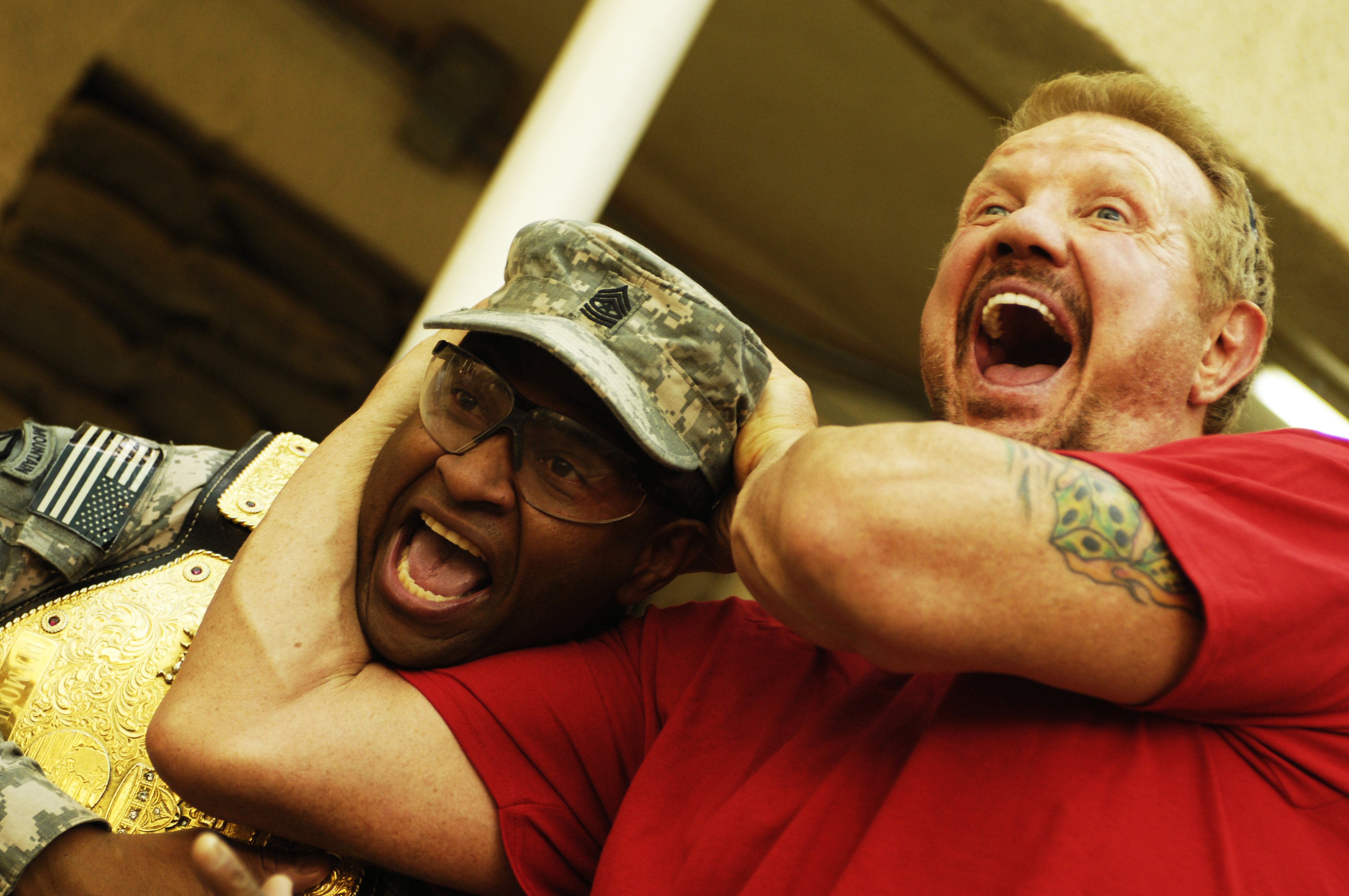 U.S. Army Sgt. Maj. Sheon Alderman, 5th Battalion, 25th Field Artillery Regiment, 4th Brigade, 10th Mountain Division, enjoys a visit from former professional wrestler Diamond Dallas Page, actress Cynthia Watros (not pictured) and television personality Bonnie-Jill Laflin (not pictured), as part of the Ambassadors of Hollywood Tour, sponsored by Morale Welfare and Recreation at Forward Operating Base Rustamiyah, Baghdad, Iraq, March 13.